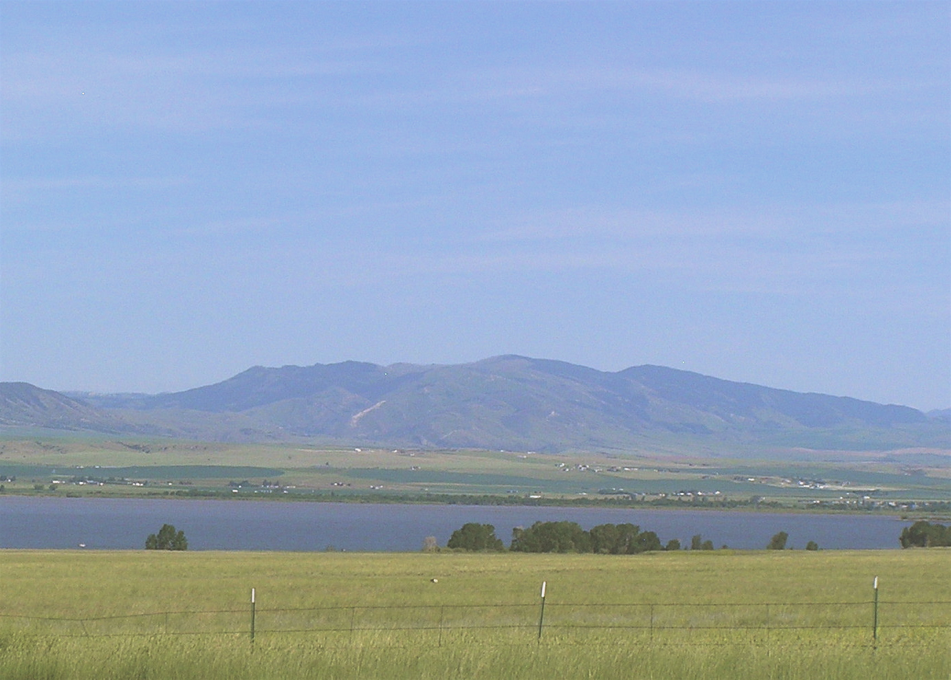 Big Belt Mountains and Canyon Ferry Reservoir, taken north of Townsend,MT from Silo Rd